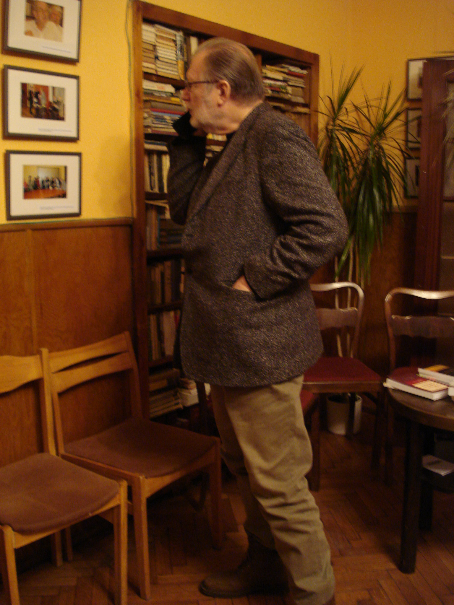 Lithuanian cinema actor Juozas Budraitis (born on 6 October, 1940) in the House-museum of Venclova Family in Vilnius. Pamenkalnio g. 34.